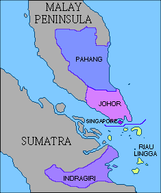 Partition of the Johor Empire prior and after the Anglo-Dutch Treaty of 1824 between the 18th-19th centuries. Under British influence: Johor Sultanate Pahang Kingdom Singapore Under Dutch influence: Indragiri Sultanate Riau-Lingga Sultanate